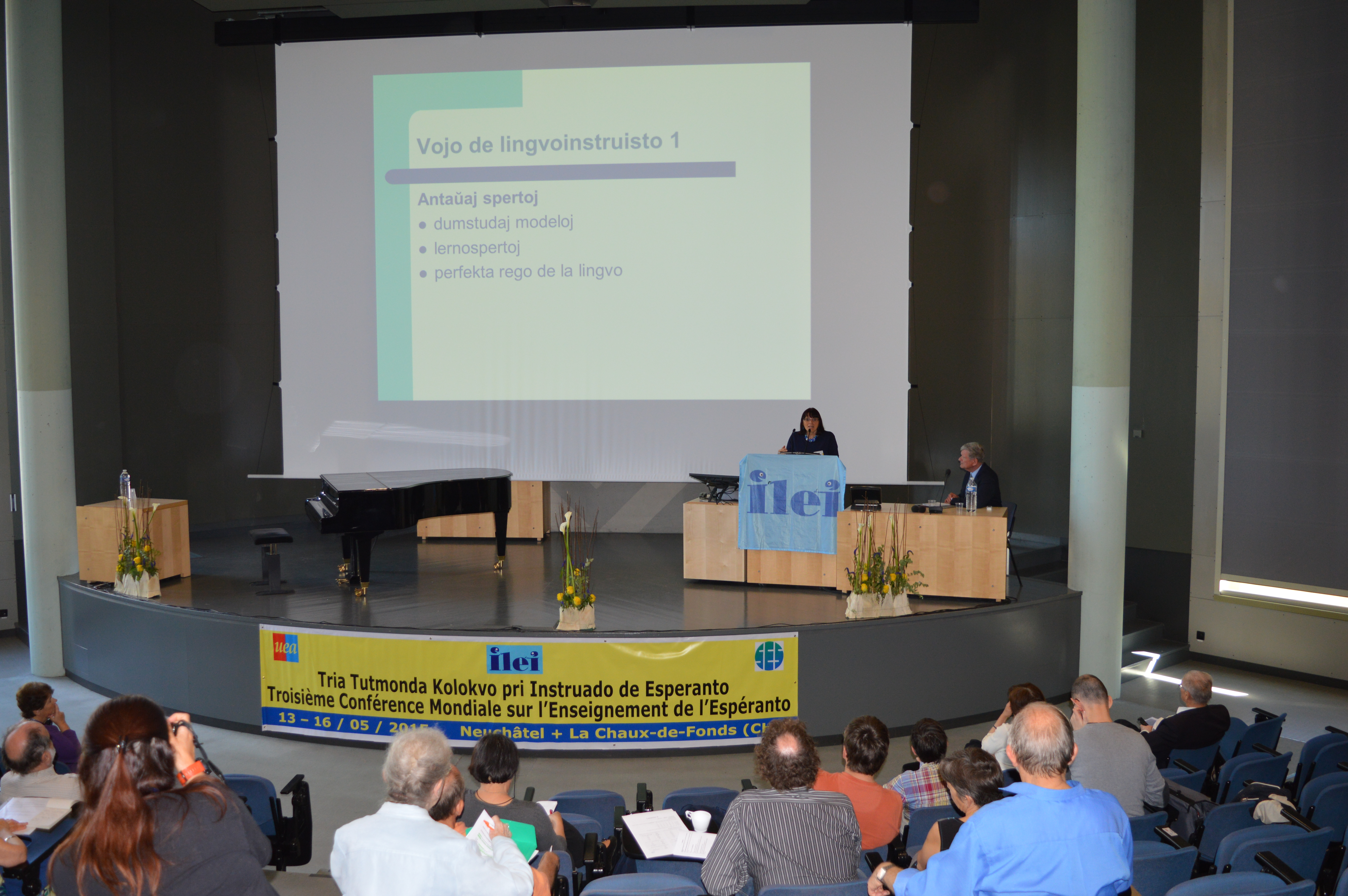 D-ro Katalin Kovats speaks during the third international conference on Esperanto teachting, canton of Neuchatel, SwitzerlandEsperanto: D-ro Katalin Kovats parolas dum la tria konferenco pri Esperanto-instruado, Neŭŝatelo, Svislando